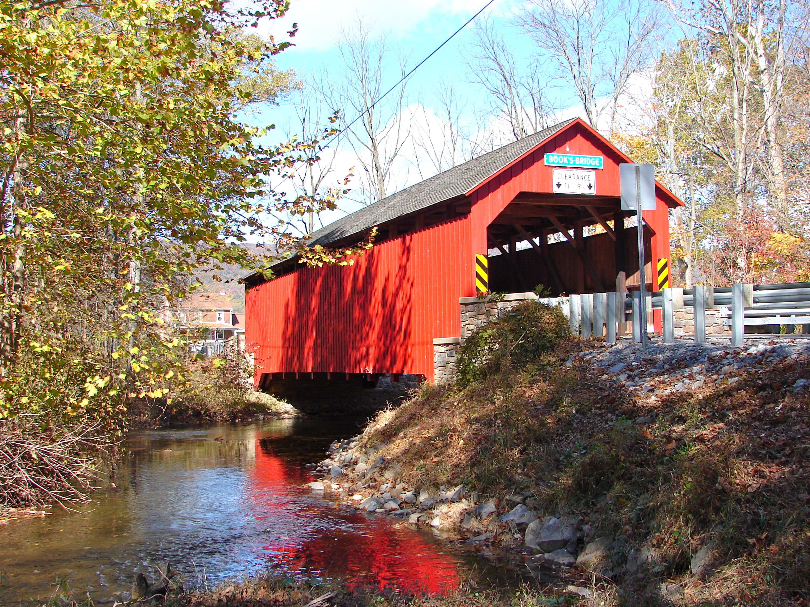 Book's Covered Bridge on the NRHP since August 25, 1980. Southwest of Blain on Legislative Route 50004 (3 Springs Road), Jackson Township, Perry County, Pennsylvania. One of 12 Covered Bridges in Perry County on the NRHP.